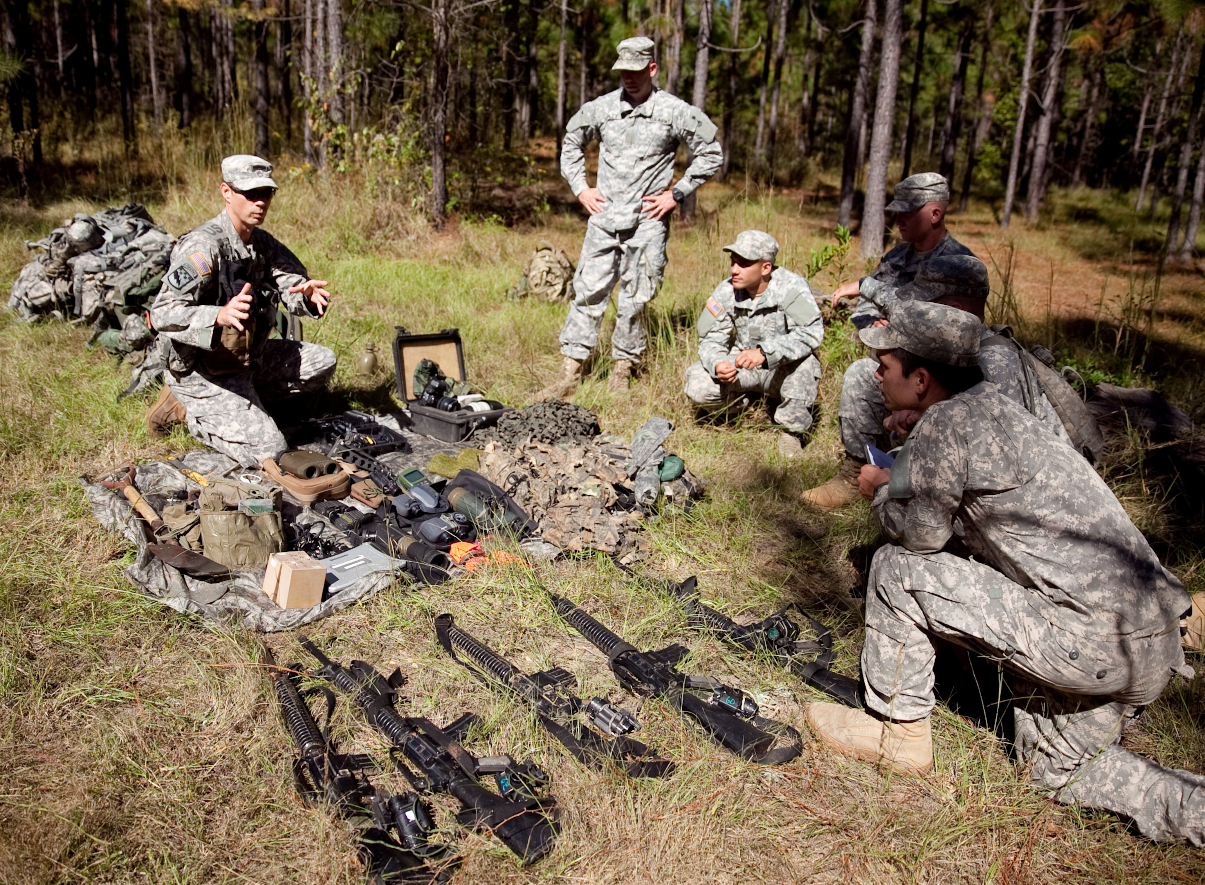 U.S. Army Reconnaissance and Surveillance Leaders Course students review the equipment used to conduct surface and sub-surface surveillance by light infantry LRS units